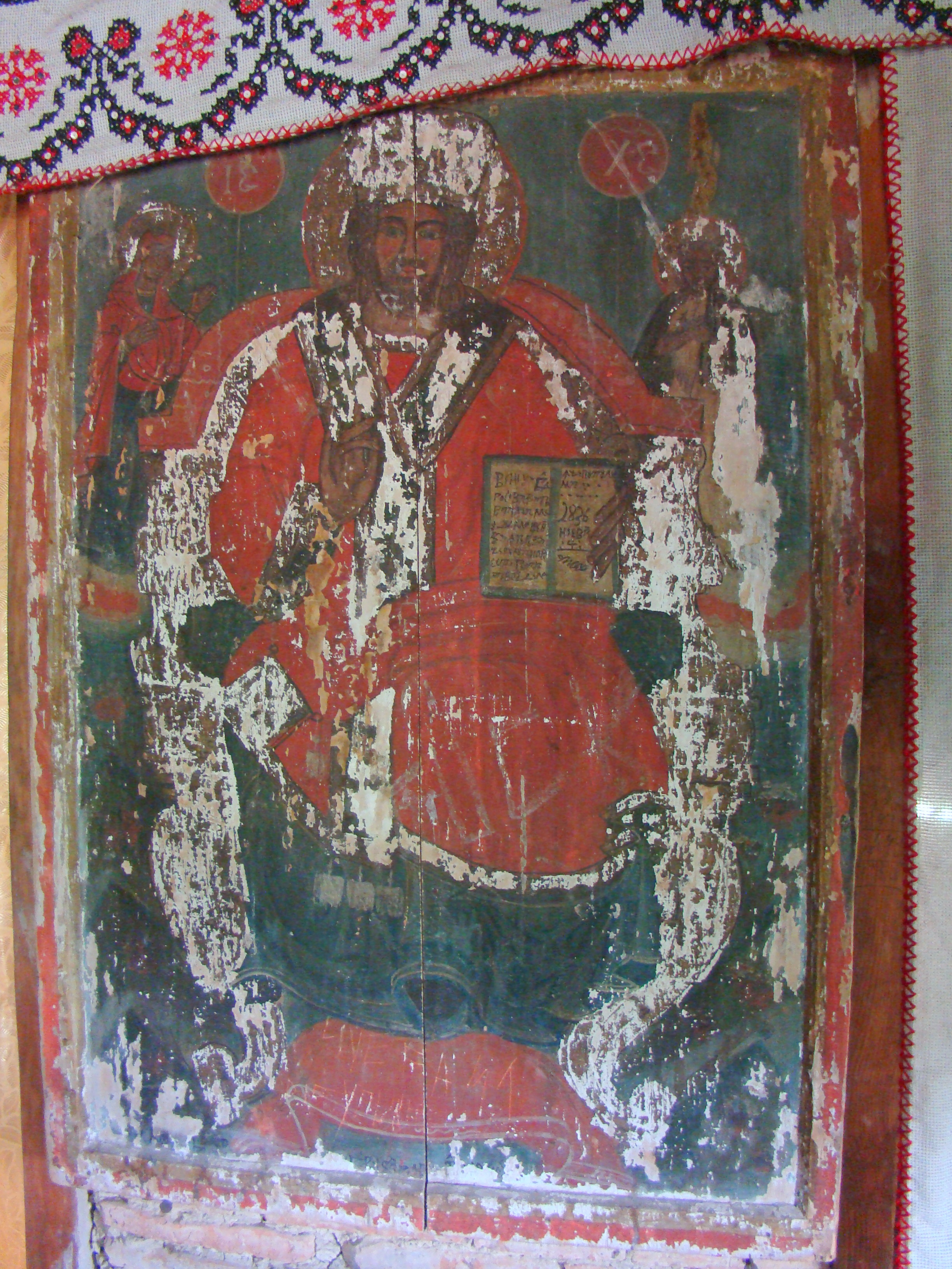 Wooden church in Bobu-Gorgania, Gorj county, Romania